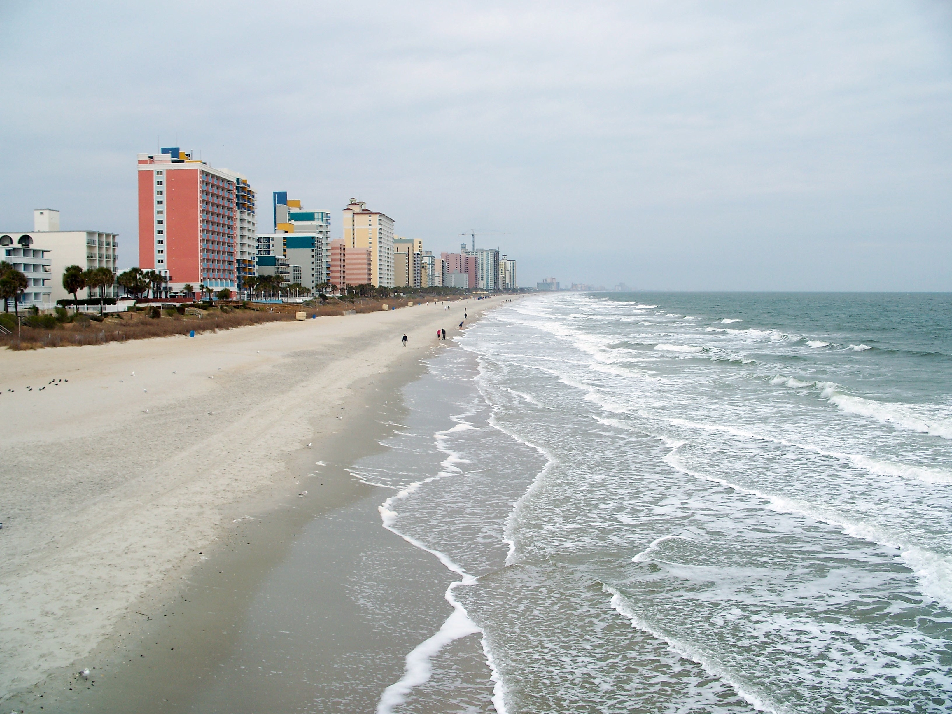 Myrtle Beach, SC Spring Break 2007